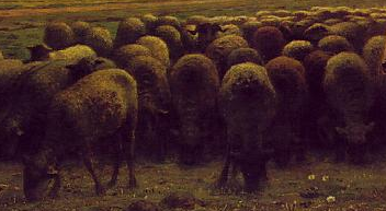 Sunset's light reflecting on the backs of the sheeps in a painting by Jean Francois Millet